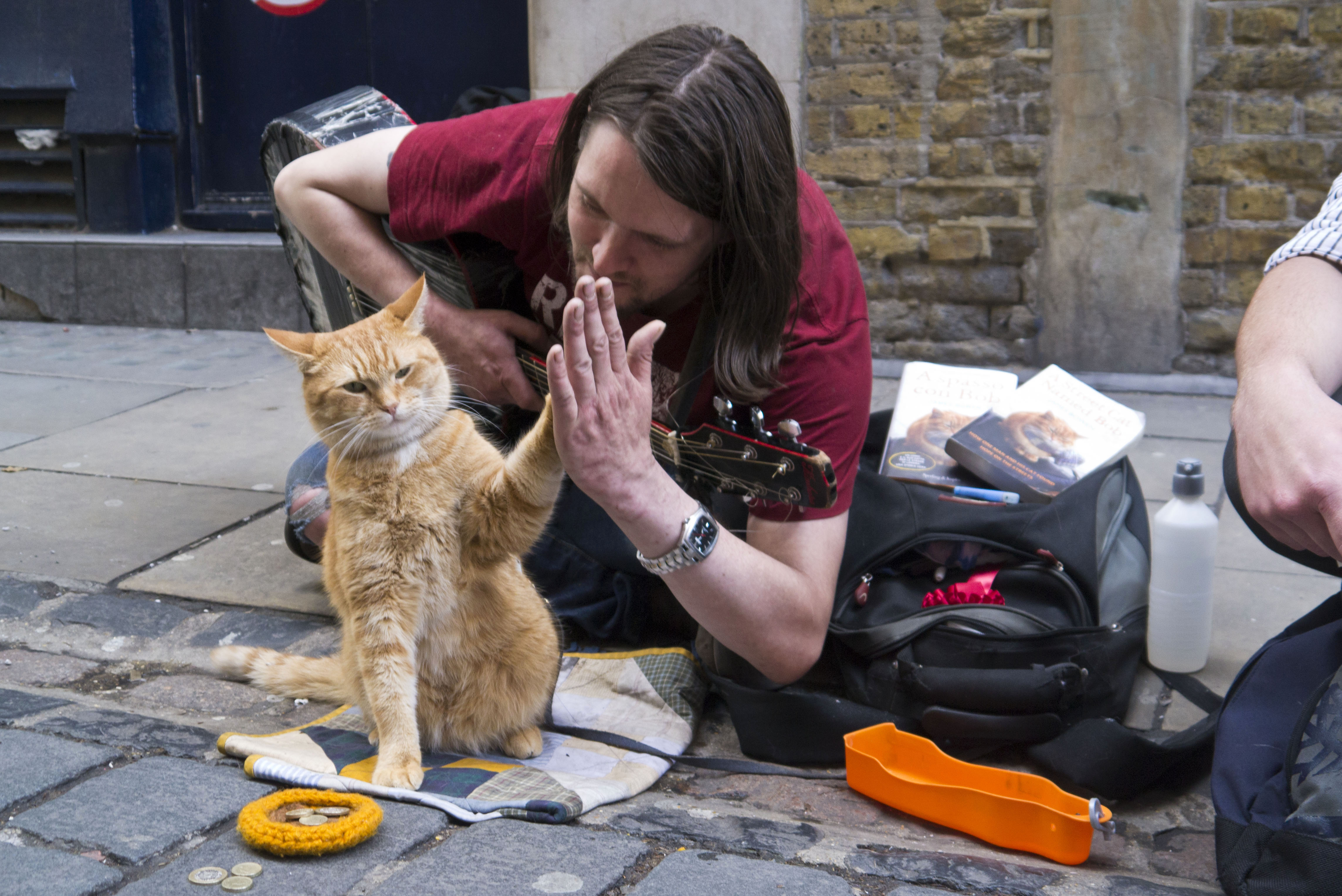 Bob the Street Cat high-fives his official biographer James Bowen on the publication of their new book.